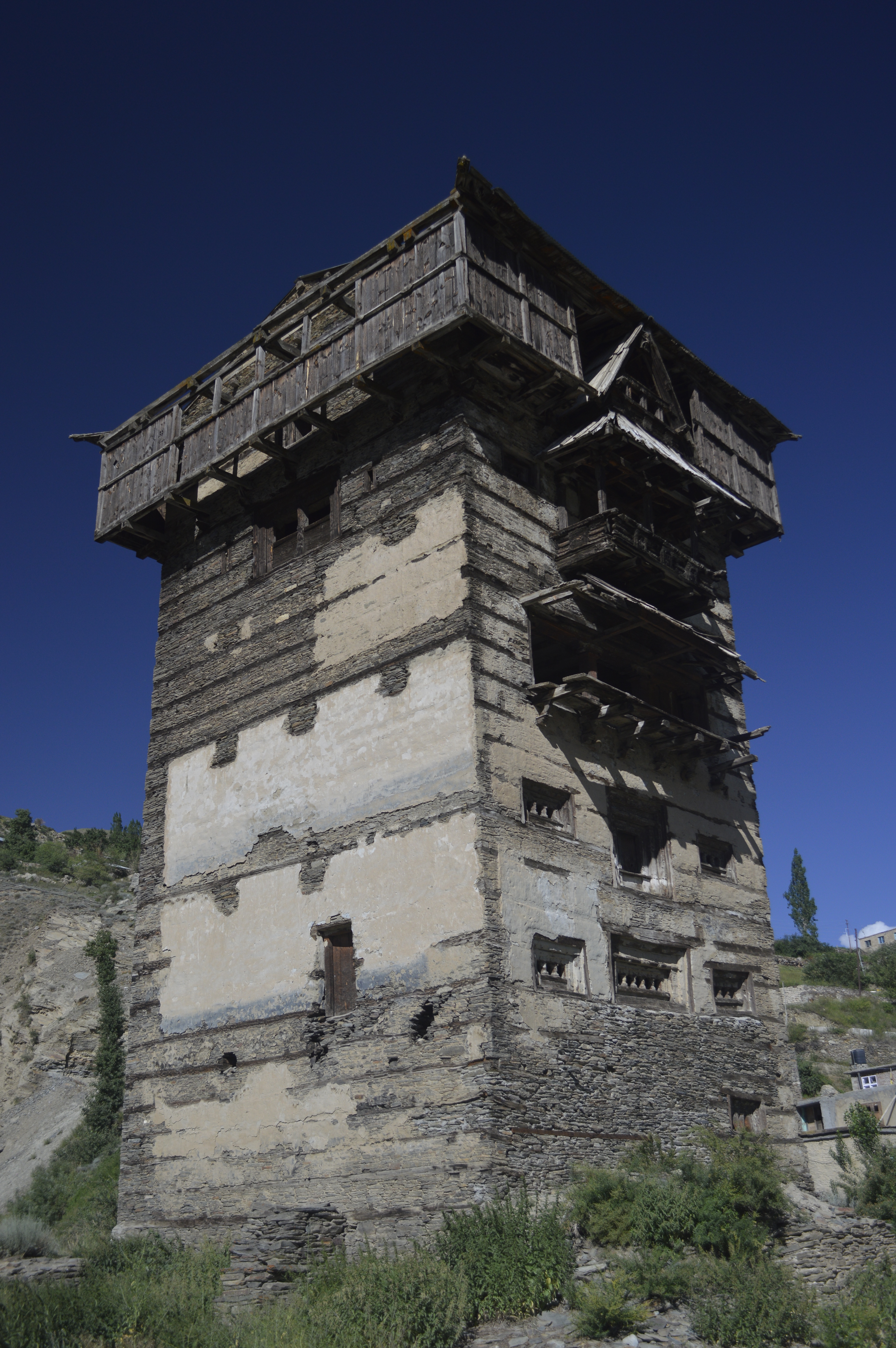 Gondla Fort -- 7-storey, alternating layers of stone and timber, built by Raja Man Singh ca. 1700.